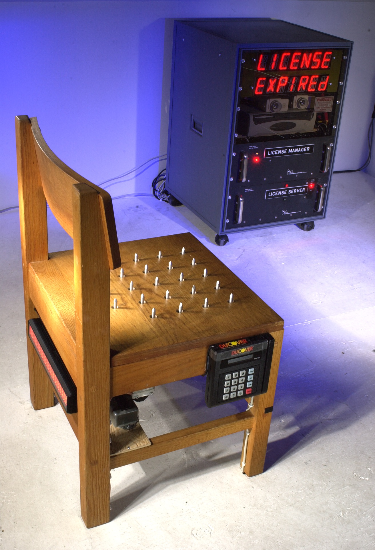 Pay to Sit: seat spikes retract when credit card inserted, by Steve Mann, San Francisco Art Institute, 2001. A credit card reader was connected to a networked computer to permit the downloading of a seat license. The first license was free, and a global database was kept of all users, so that each user only got one free trial seating session regardless of geographic location. Device drivers written in GNU Linux for the card reader and server are available for download from